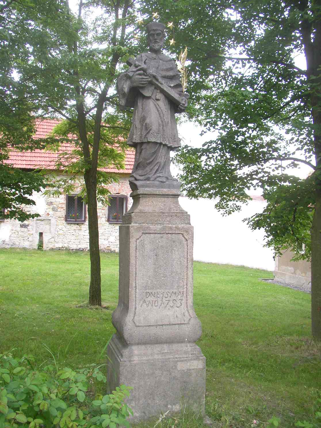 St. John of Nepomuk statue from 1753 in Velká Dobrá, Kladno District, Czech Republic photo taken by Miaow Miaow in June 2005